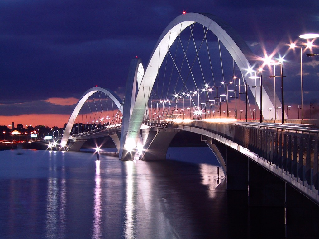 JK bridge